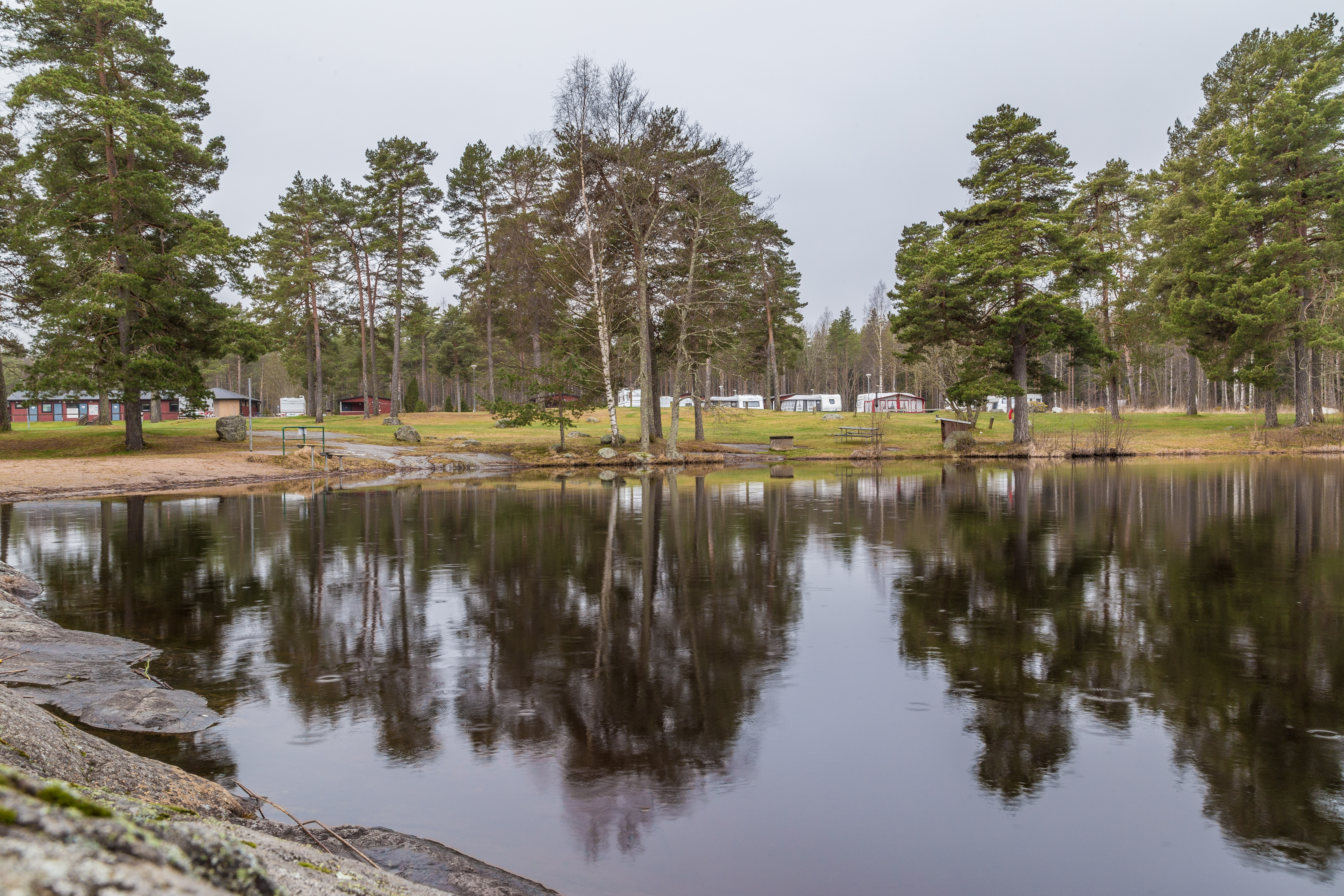 Silvköparen camping ground at lake Silvköparen, Sala Municipality, Västmanland County, Sweden.